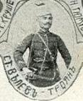 Portrait of IMARO member Stoyan Vаlev Hitrovski from Troyan